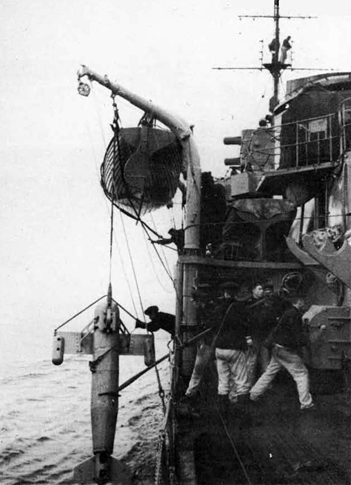 Streaming a paravane aboard the destroyer Boiki